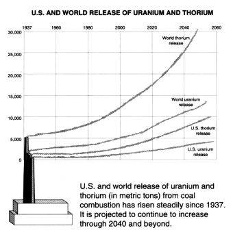 Annual uranium and thorium radioisotope release from coal combustion.